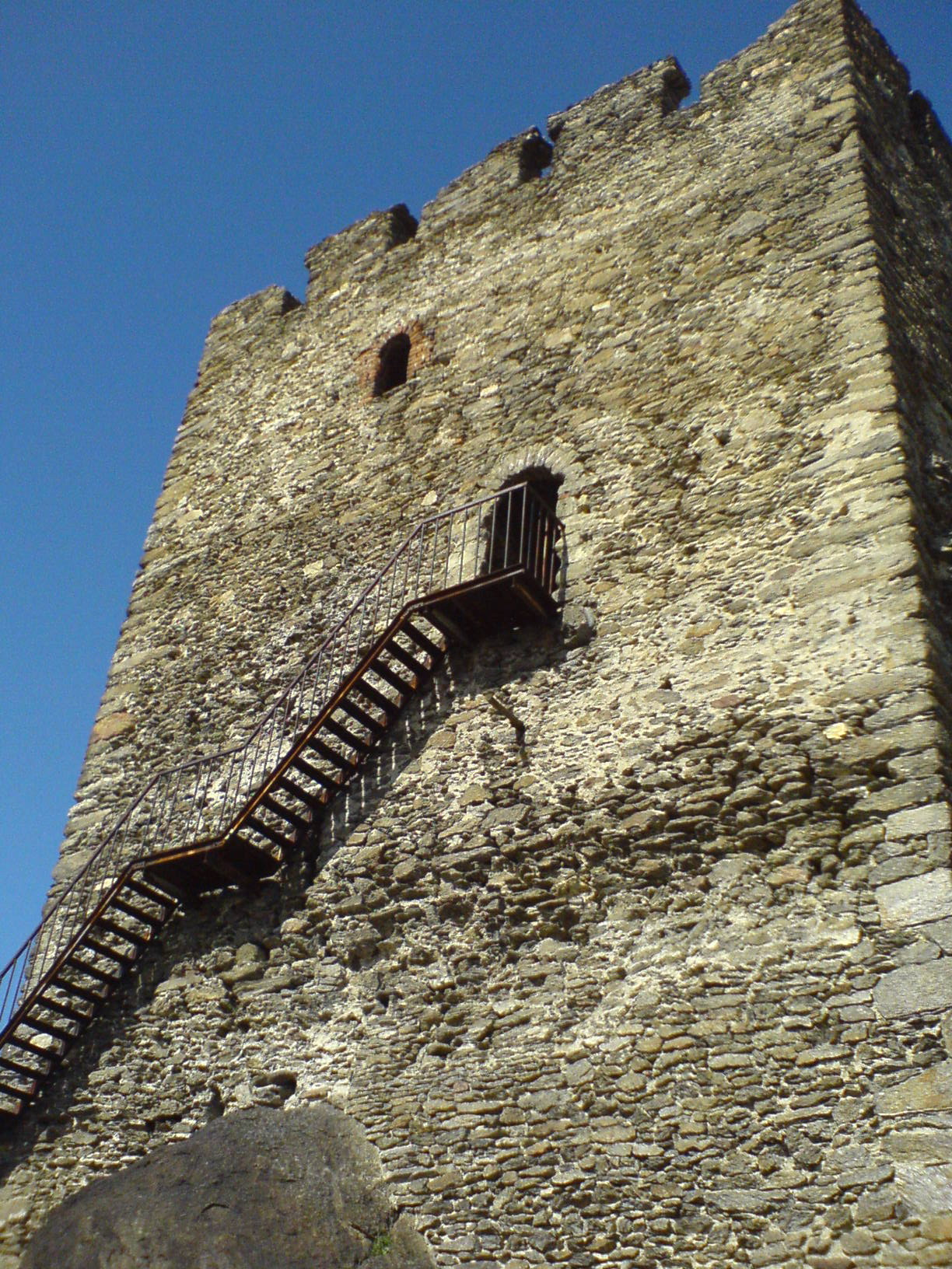 Fortress Vrsac, Serbia